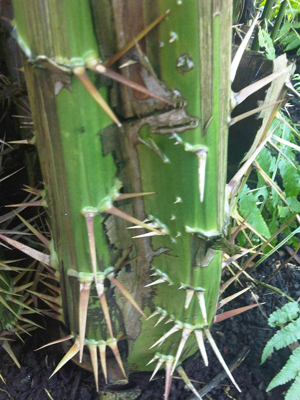 The spiney stem of the Salacca ramosiana in Kew Gardens, England.